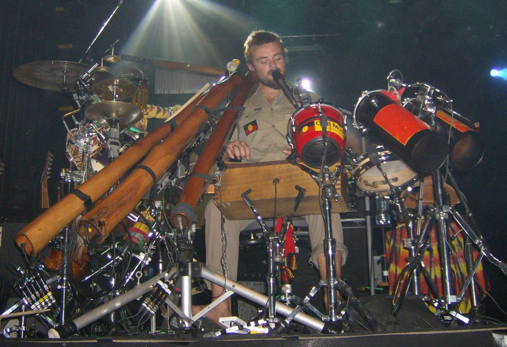 Xavier Rudd, live in Utrecht, July 3, 2008